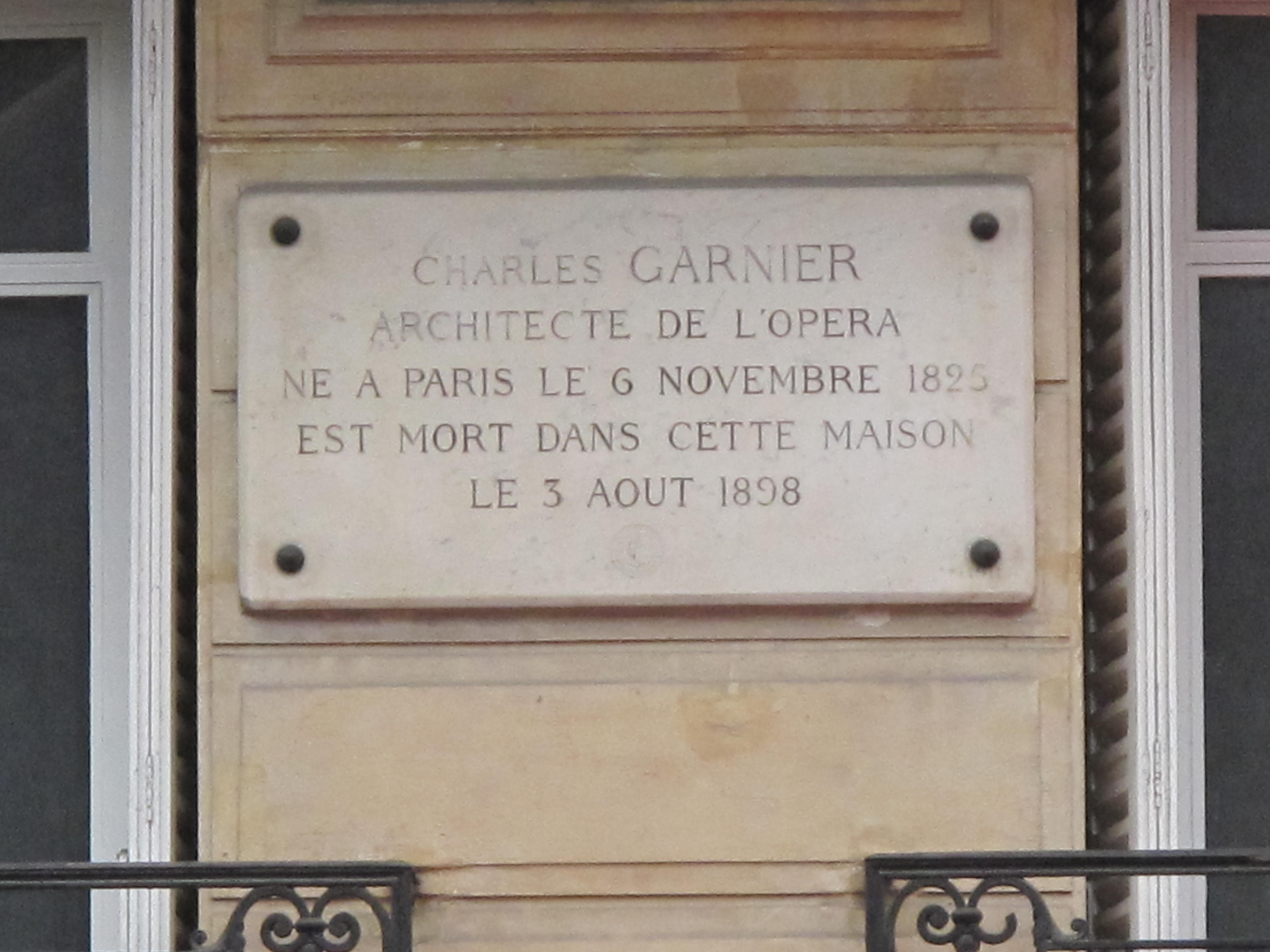 Plaque on the building where died Charles Garnier à Paris : 90 boulevard Saint-Germain, Paris 5th arrond.